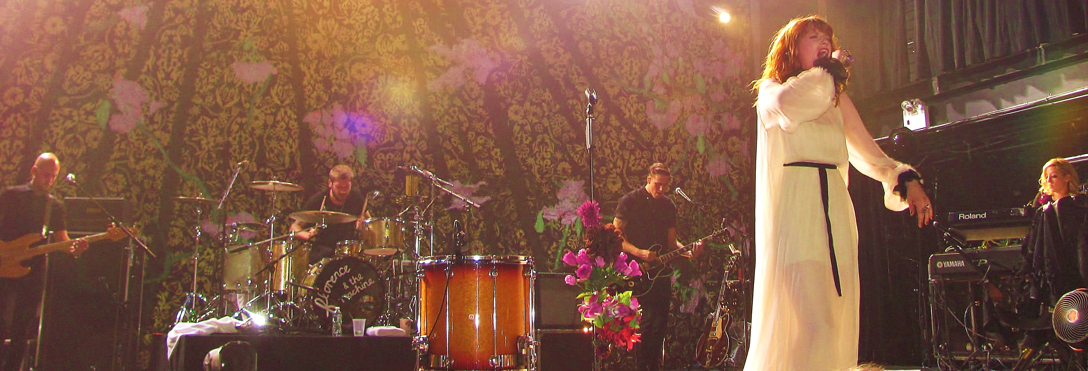 Florence and the Machine performing at Terminal 5, New York City, November 1, 2010.